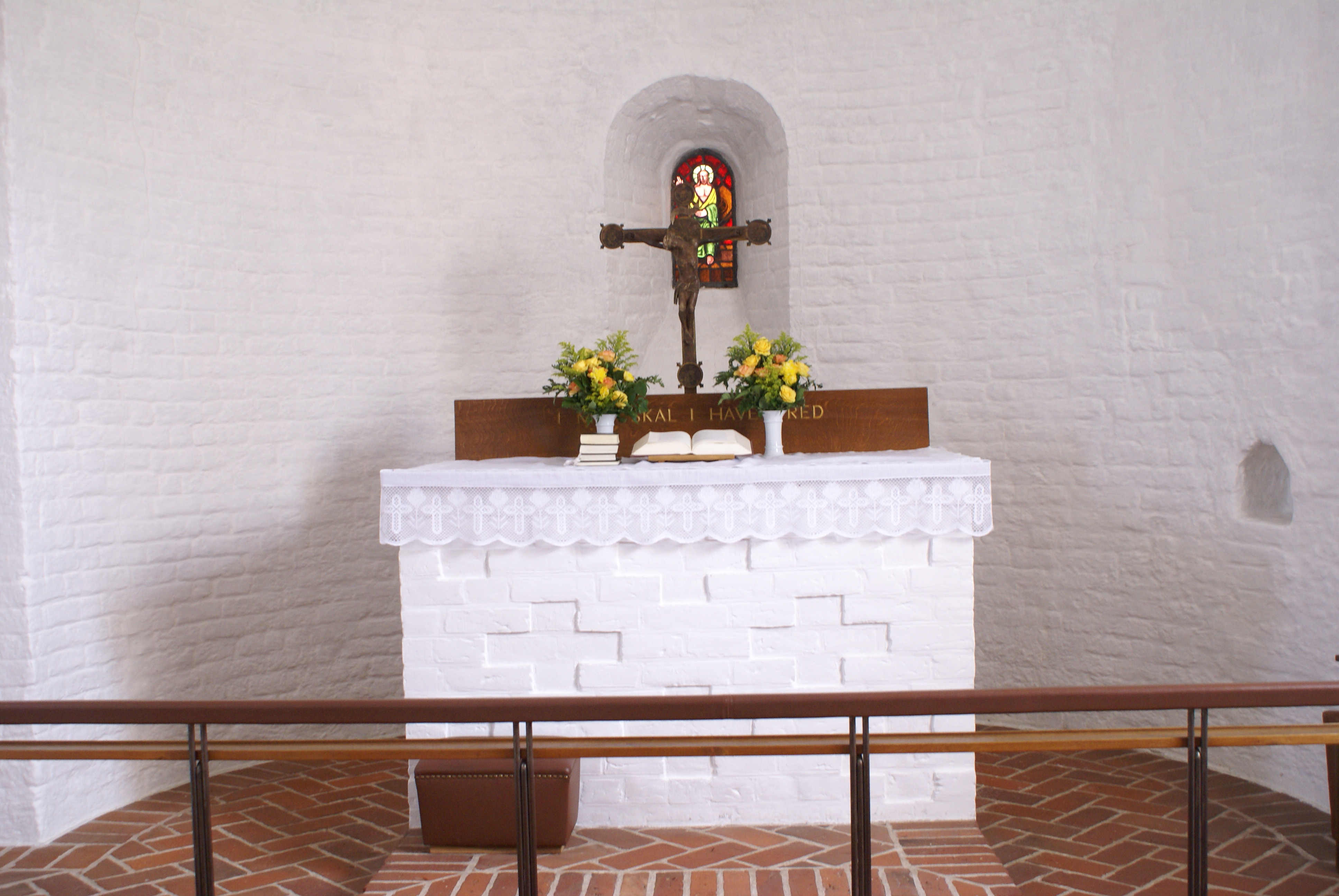 Thorsager Church, Denmark, Altar